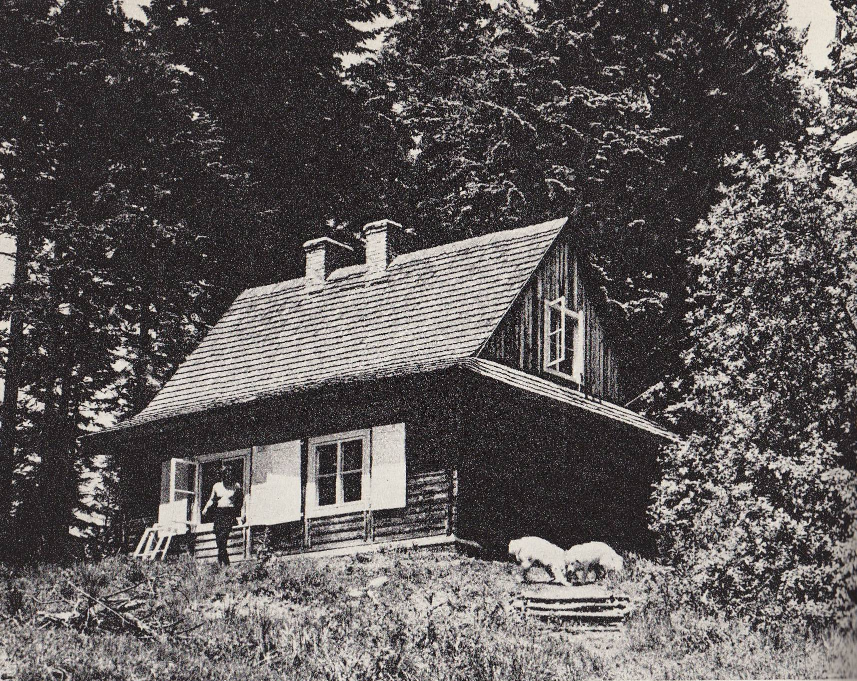 Students' tourist shelter on Łopiennik mountain